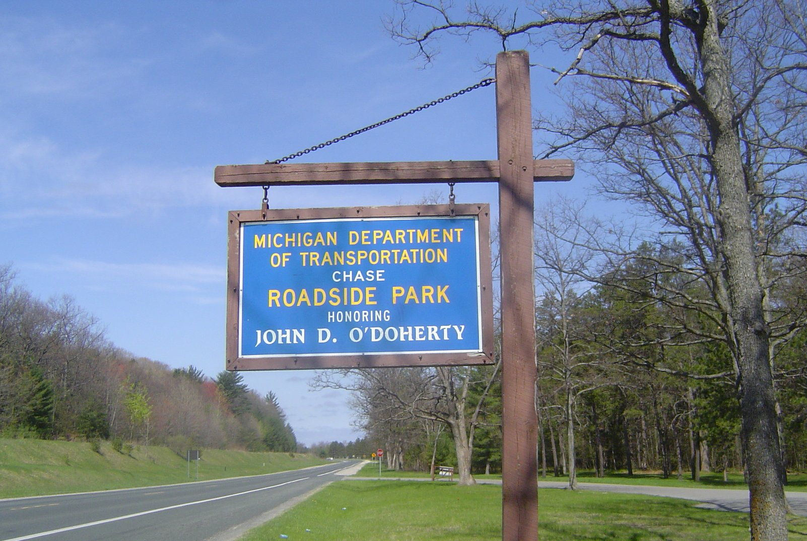 Typical roadside park sign in Michigan. Chase Roadside Park is located 7 miles east of Baldwin, Michigan on US-10 in Lake County.